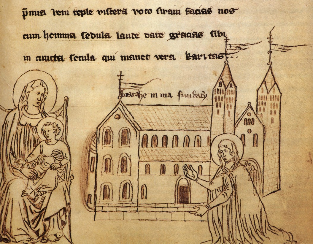 picture from Legenda Beatae Hemmae, showing Hemma von Gurk dedicating the Cathedral to Mary/Bild aus der Legenda Beatae Hemma: Hemma von Gurk widmet den Dom Maria,, der Kirchenpatronin